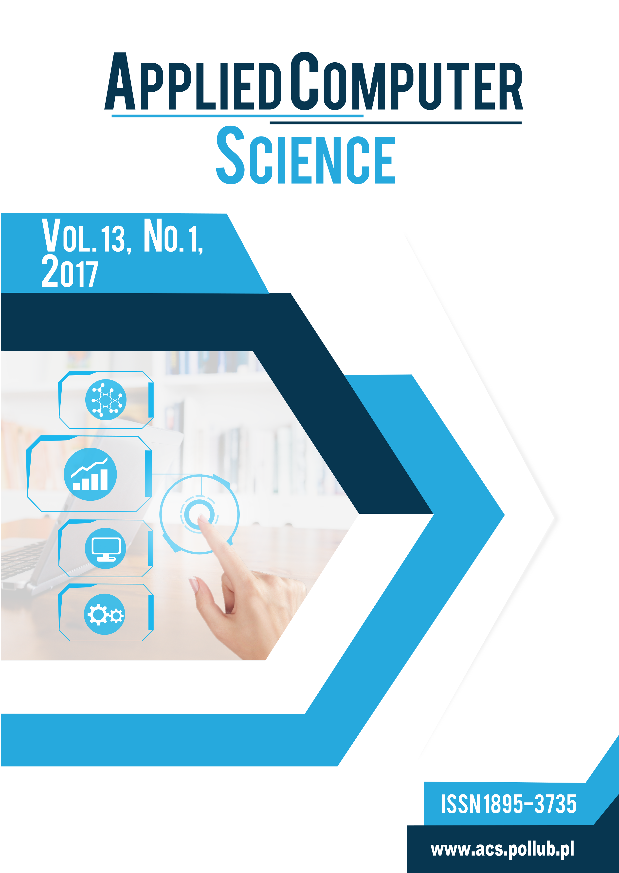 frot cover of ACS Journal (since 2017)